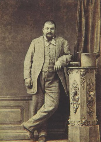 The Italian businessman Gaspare Campari (1828-1882)